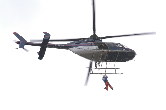 Helicopter Stunt